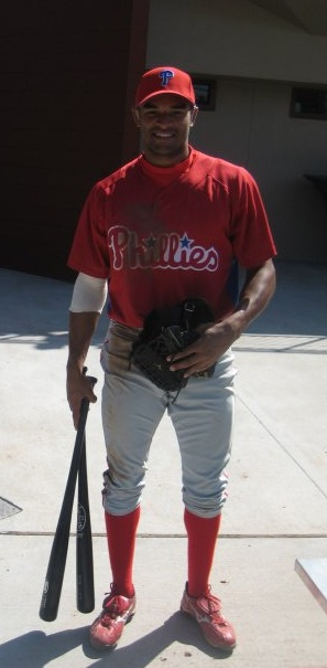 Tyson Gillies at Phillies training camp 2010 (Picture by Ian Bussieres, Le Soleil, Quebec City) The copyright holder of this file allows anyone to use it for any purpose, provided that the copyright holder is properly attributed. Redistribution, derivative work, commercial use, and all other use is permitted.